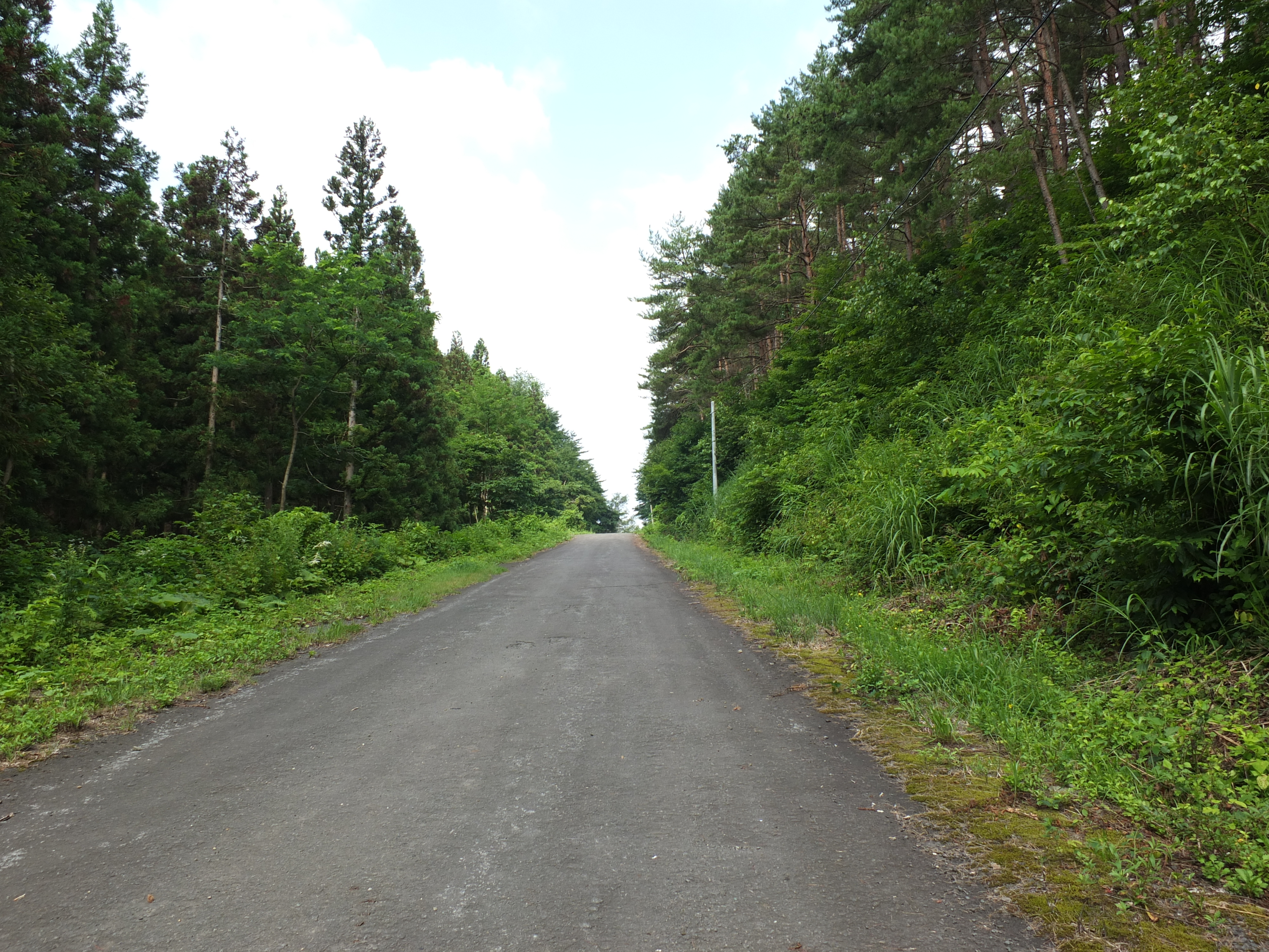 Nasi-no-ki touge (pear tree pass) on Kaduno kaidou, in Hatimantai city, Iwate prefecture, Japan.